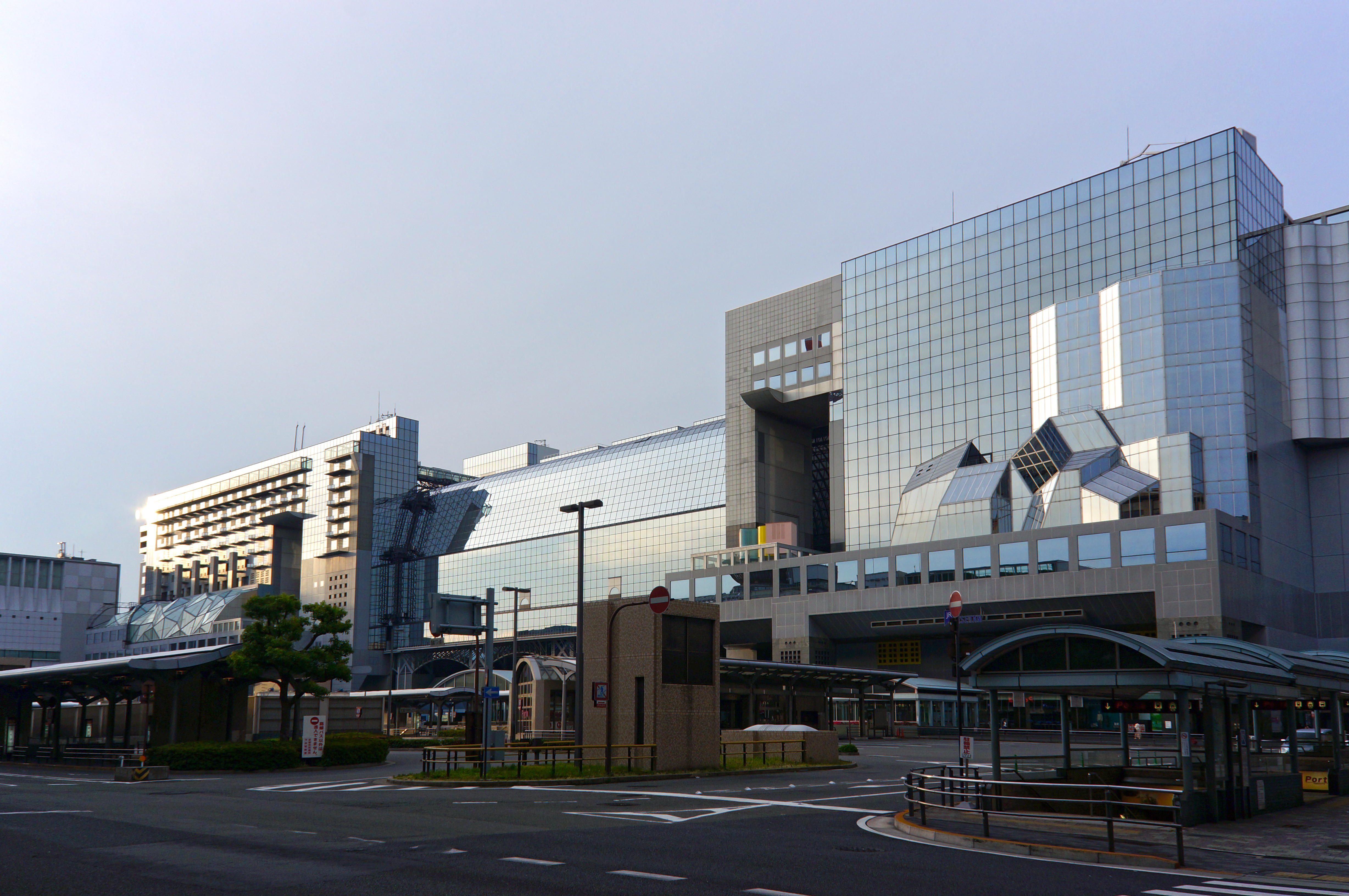 Kyōto Station in Kyoto, Kyoto prefecture, Japan